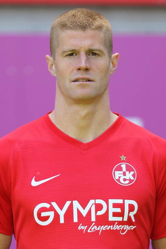 André Hainault (Nr. 35)